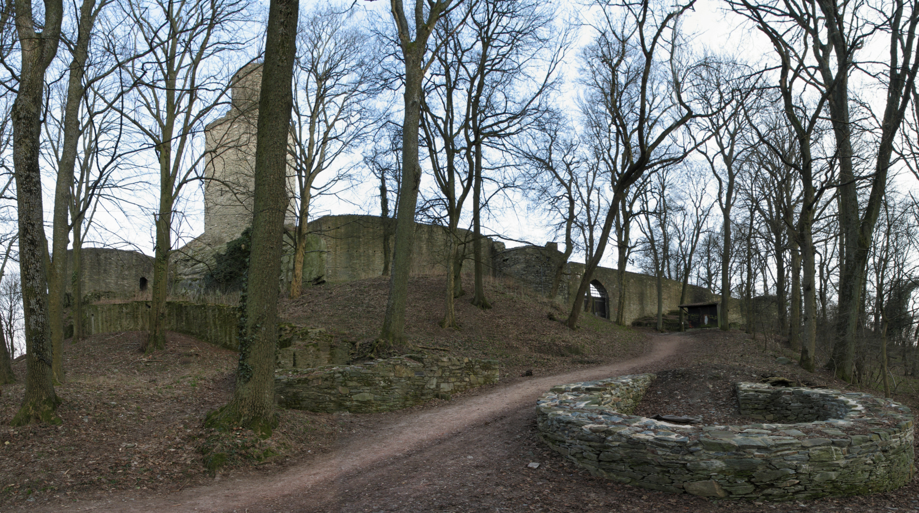 The Falkenstein castle near Königstein (Taunus), Germany. View from outside.